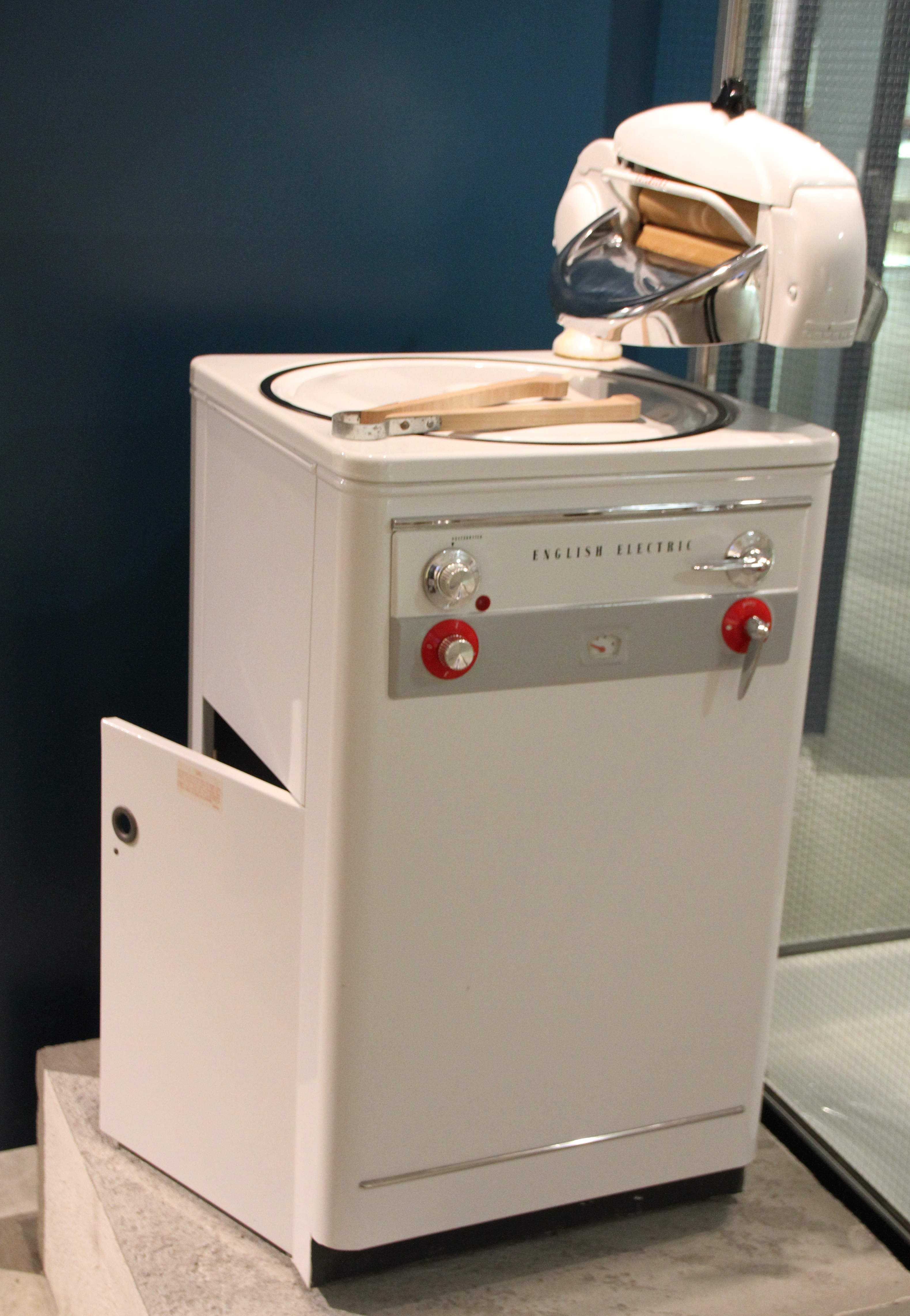 Washing machine from 1964, produced by the company English Electric (UK). Folkemuseet, Oslo (Norway)